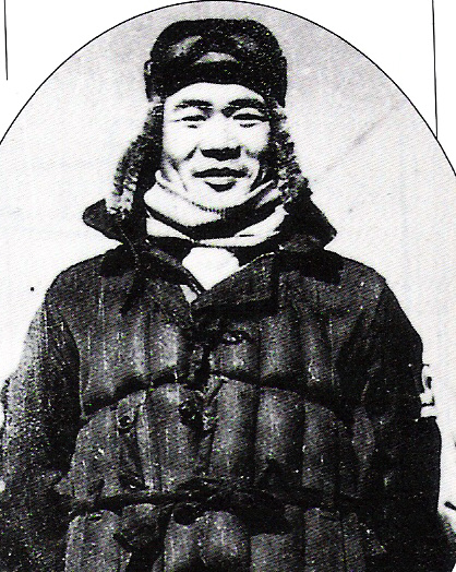 Japanese fighter ace lieutenant Iyozoh Fujita (aircraft carrier Soryu)